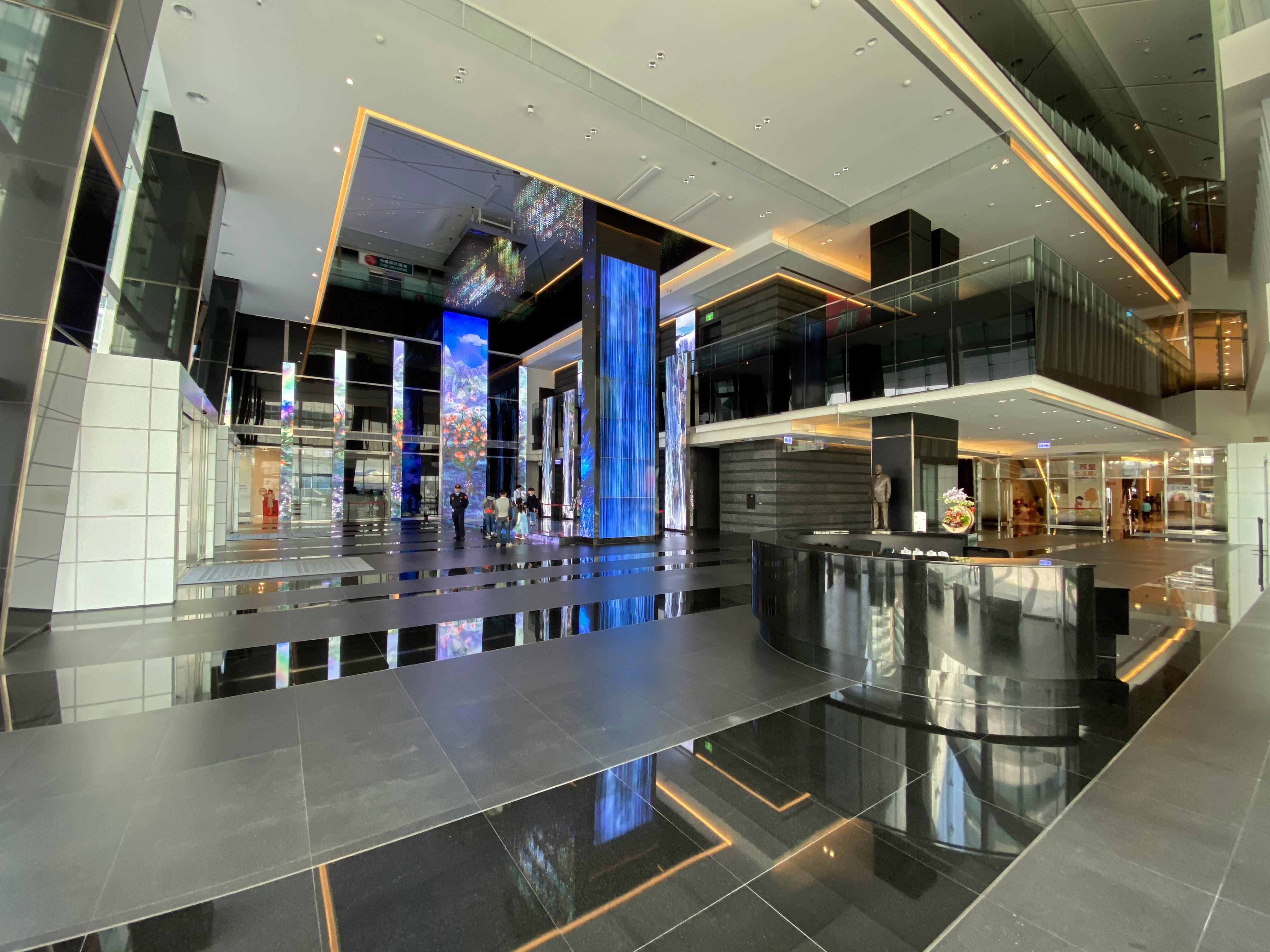 CTBC Financial Park Block A Lobby